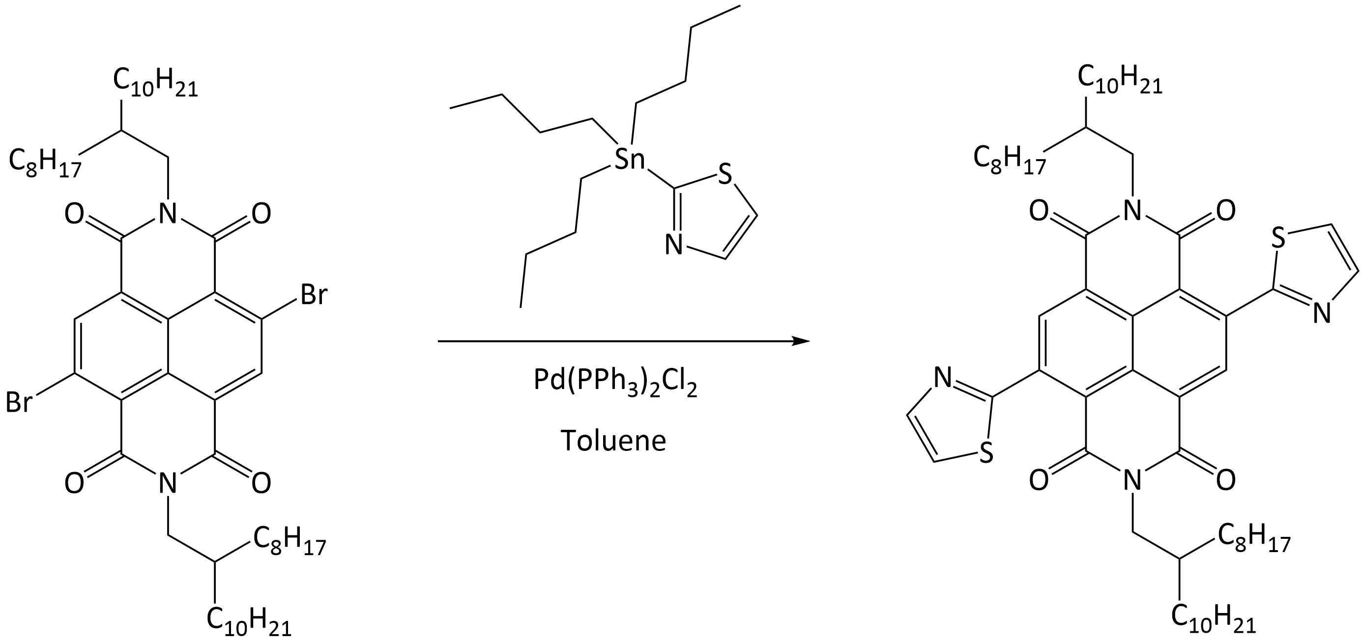 NDI2OD functionalization with Tz